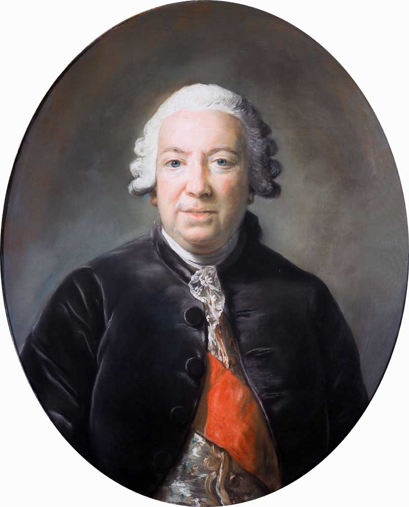 Nicolas Beaujon. (Provenance:In the artist’s collection until at least the 1830s. Dr Jules-Marie-François Aussant (1805–1872), Rennes; Paris, 28–30 December 1863, Lot 46 (as “peinture de La Tour”), FFr 330; Edmond et Jules de Goncourt; Paris, Drouot, 15–17 February 1897, Lot 232, FFr 3000 (as attributed to Perronneau; possibly Ducreux); Paris, François-Wilbrod Chabrol (1835–1919).